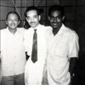 Vernon Corea of Radio Ceylon